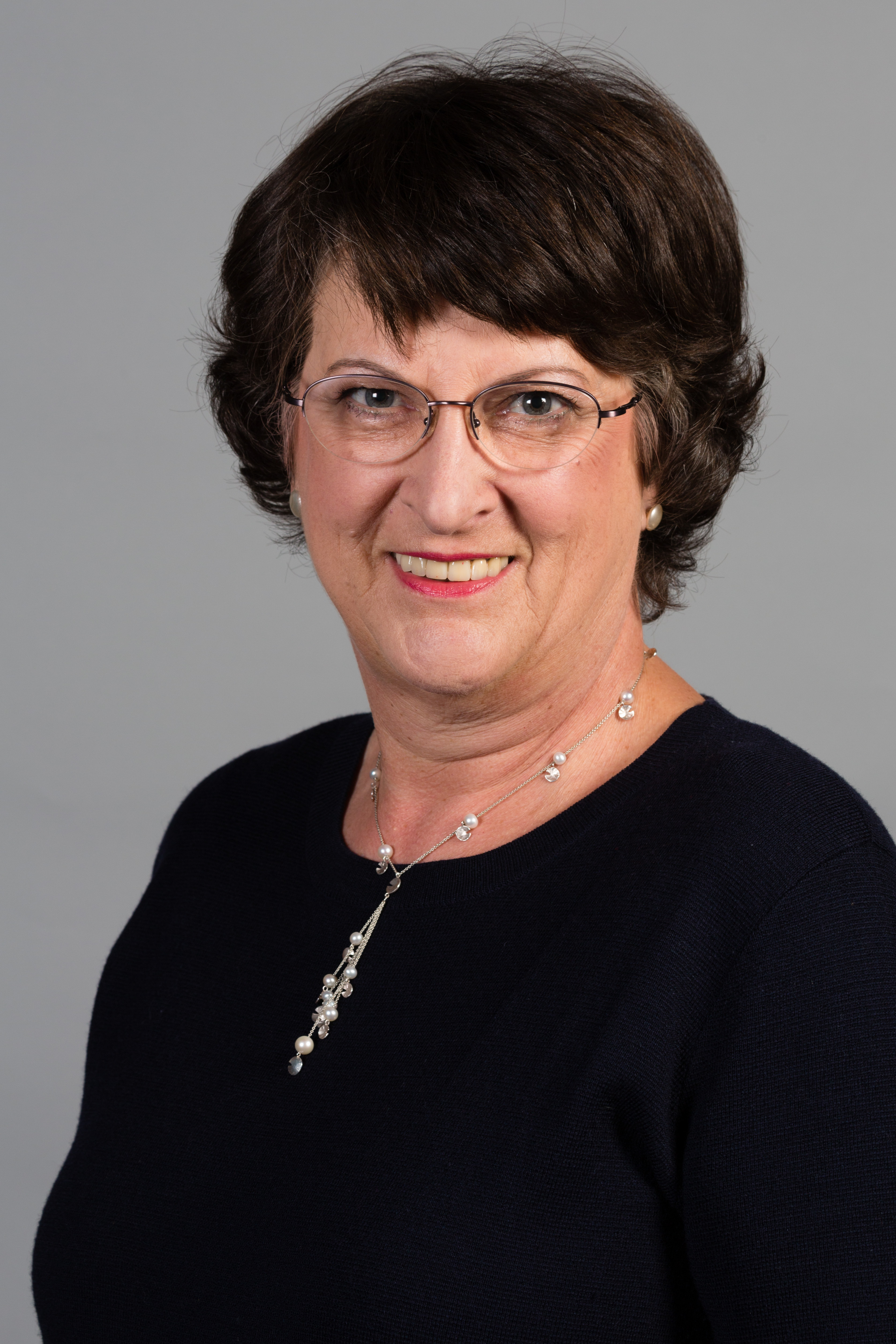 Catherine Bearder, Member of the European Parliament for the United Kingdom in Strasbourg, France